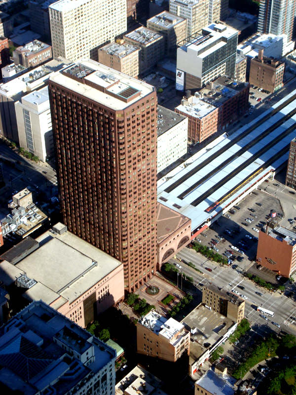 The Chicago Stock Exchange/LaSalle Street Train Station from the Sears Tower.